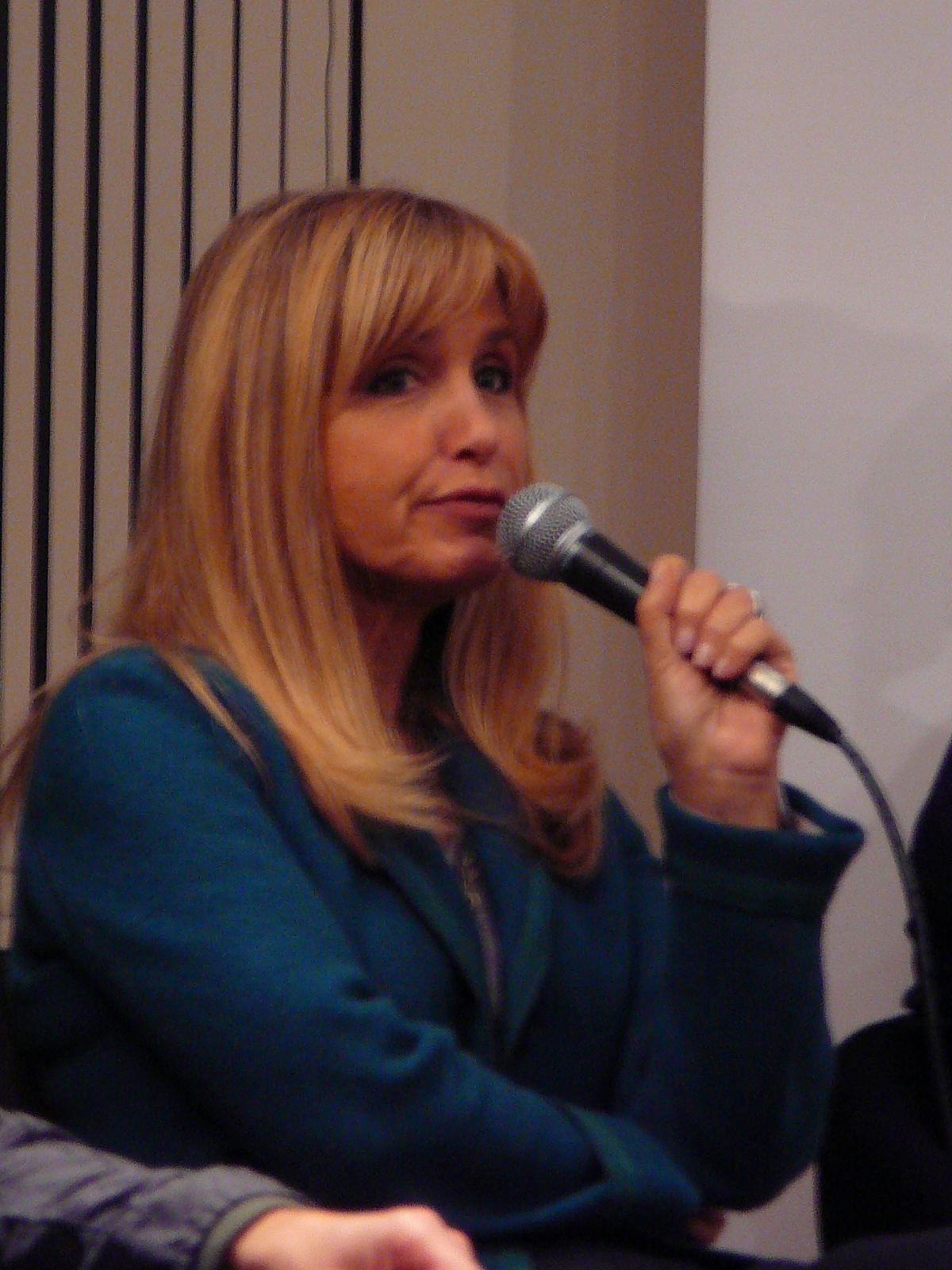 Dori Ghezzi, Italian singer, at MEI 2008 presentation.